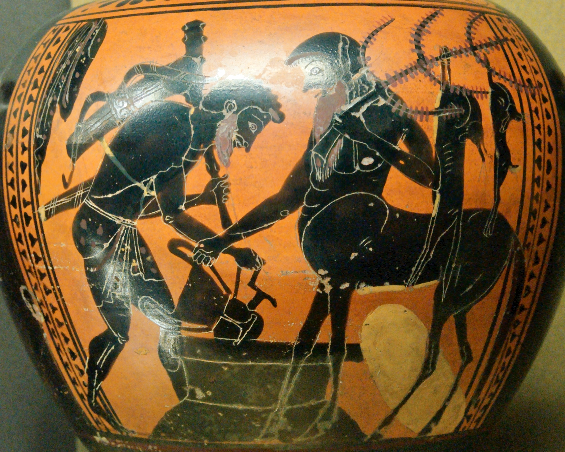 Heracles at Pholus'. Attic black-figured hydria (kalpis), 520–510 BC.